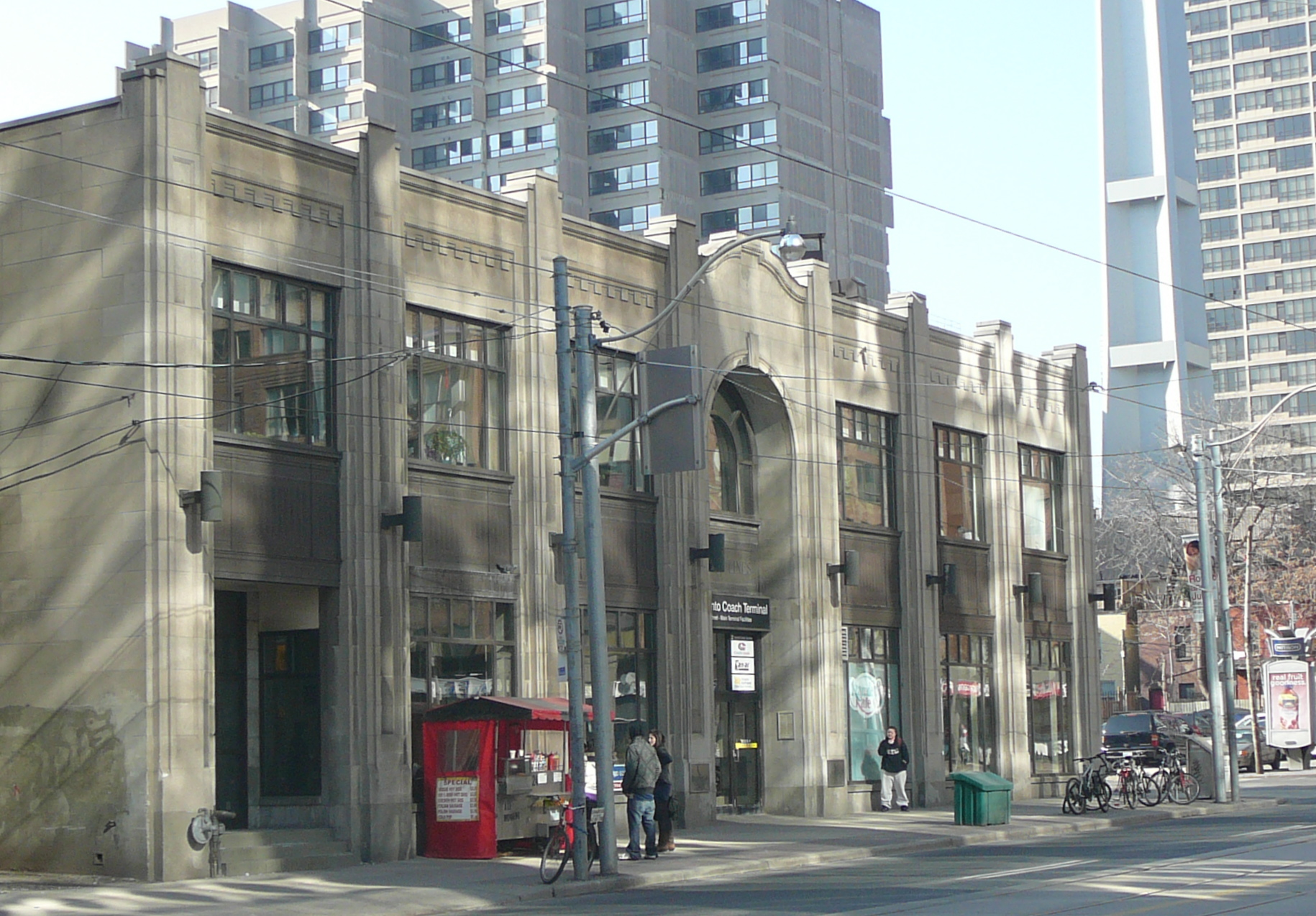 This is the main bus terminal in Toronto, officially known as the Toronto Coach Terminal. As well as a general store and the customer service desks of the various bus companies, the Terminal houses Kramden's Cafe and Kramden's Bar - both named for Jackie Gleason's bus driving character Ralph Kramden from the 1950's Honeymooner's TV series.